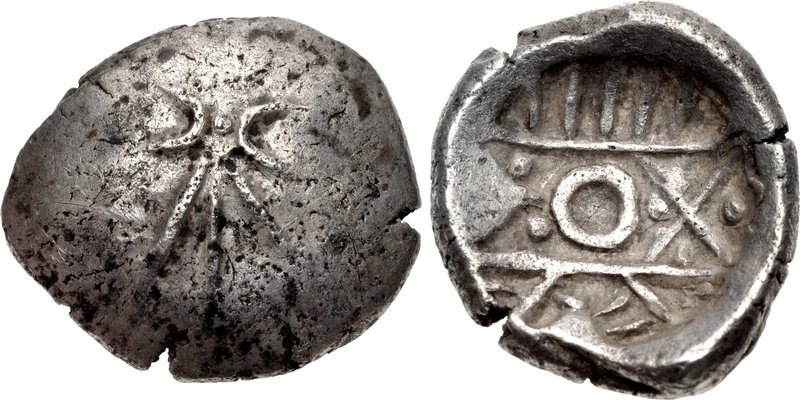 Achaemenid Empire coin. Uncertain mint in the Kabul Valley. Circa 500-380 BCE. AR Half Shatamana (19mm, 4.72 g). Uncertain geometric symbol: central pellet with three rays emanating from it and flanked by two crescents, each with horns outward / Geometric design in three registers – upper is a series of five vertical lines; middle is a large annulet flanked by an arrow-shaped symbol right and two pellets, and an X with pellets; bottom is a pair of symbols flanking central arrow – each register separated by a line.